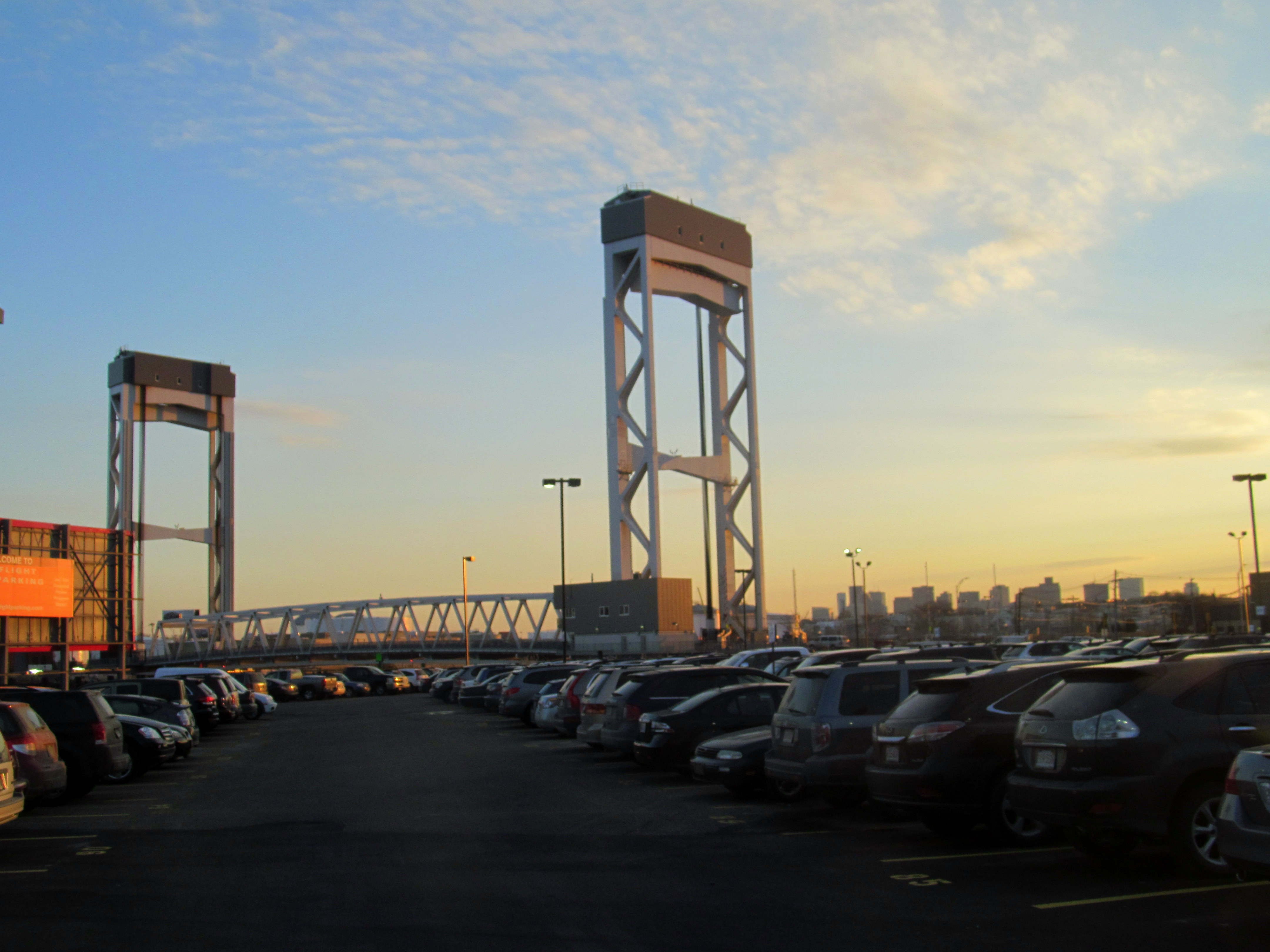 The 2012-built Chelsea Street Bridge and the Boston skyline viewed from a parking lot on Eastern Avenue in Chelsea in March 2014